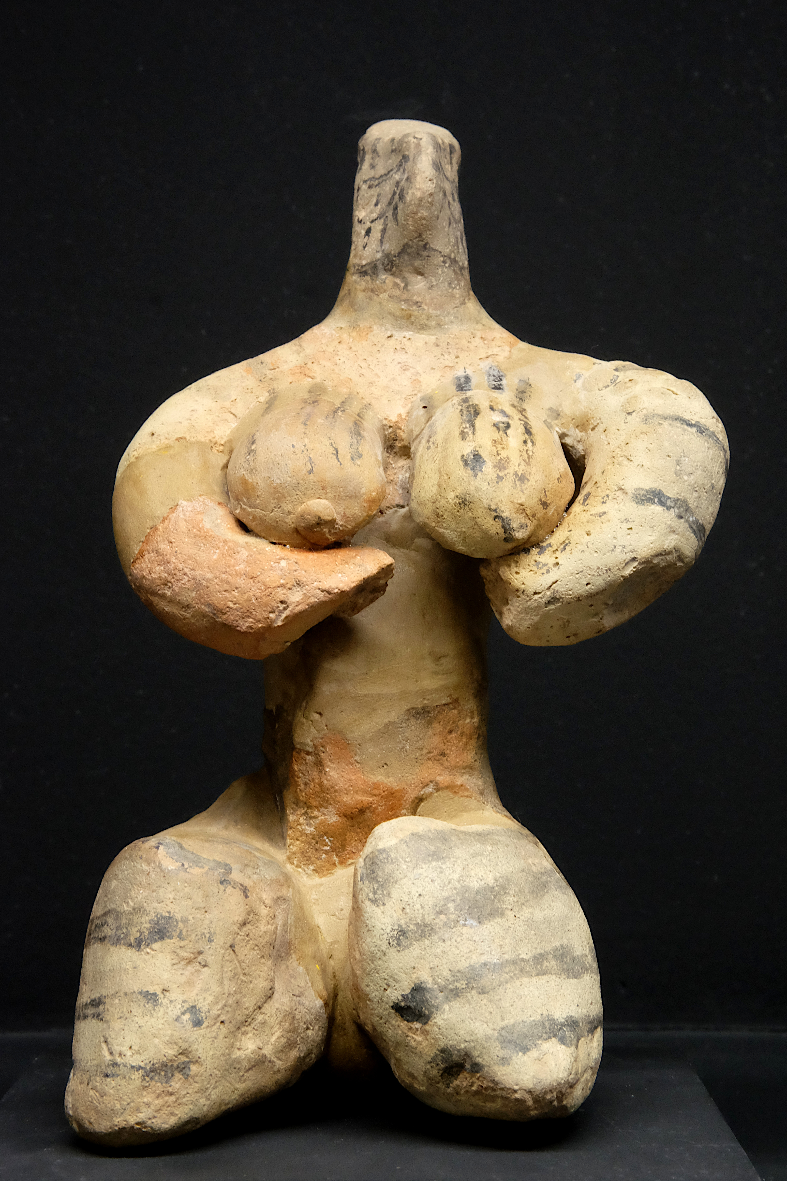 Figurine (composed of fragments of several statuettes) parturient seated from the Halaf period. The strips of paint are painted with henna, the upper part of the arms shows traces of scarification. North Syria